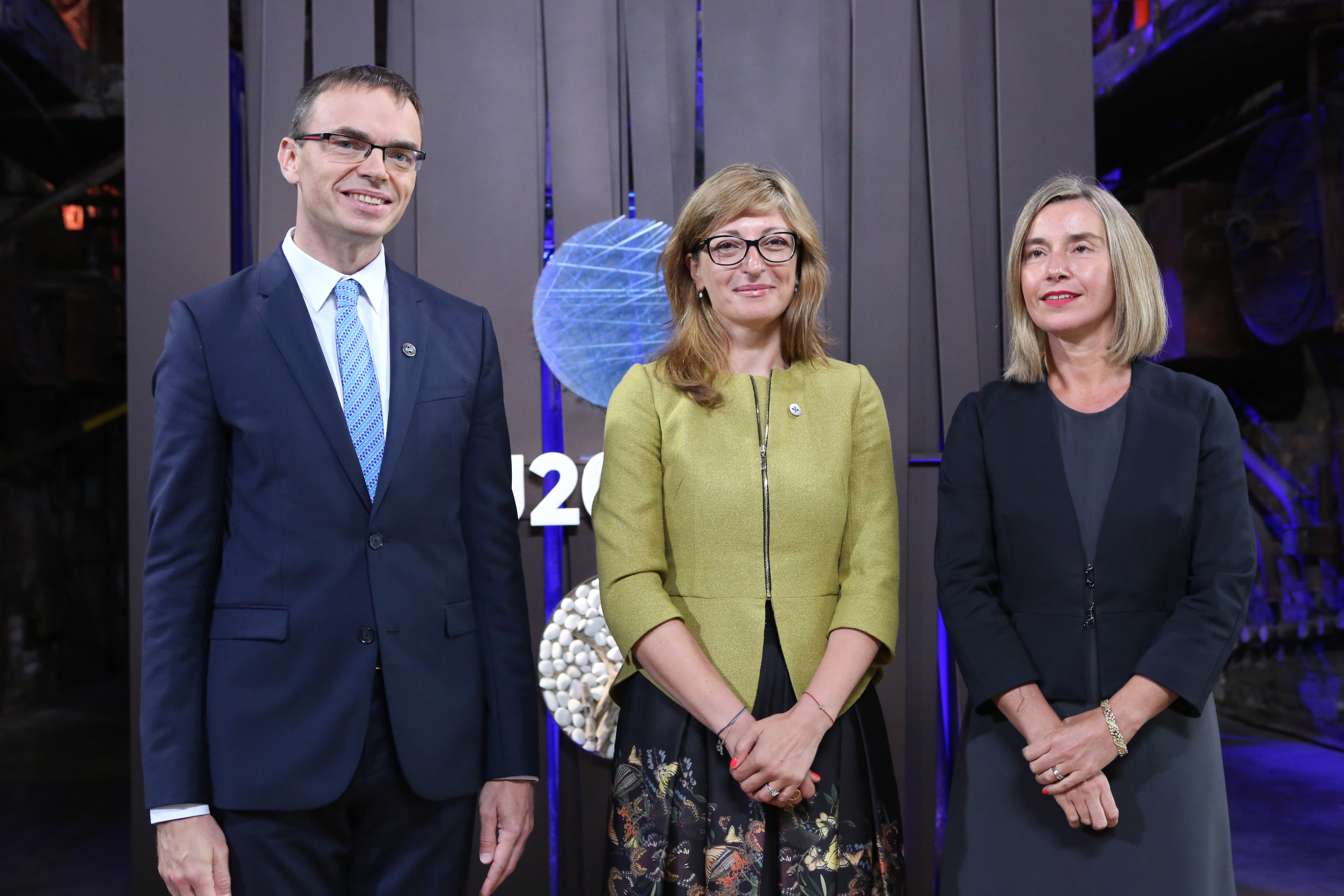 (l-r) Sven Mikser, Minister, Ministry of Foreign Affairs, Estonia; Ekaterina Zaharieva, Deputy Prime Minister for Judicial Reform; Minister of Foreign Affairs, Ministry of Foreign Affairs, Bulgaria; Federica Mogherini, High Representative/Vice President, European External Action Service/European Commission Photo: Annika Haas (EU2017EE)